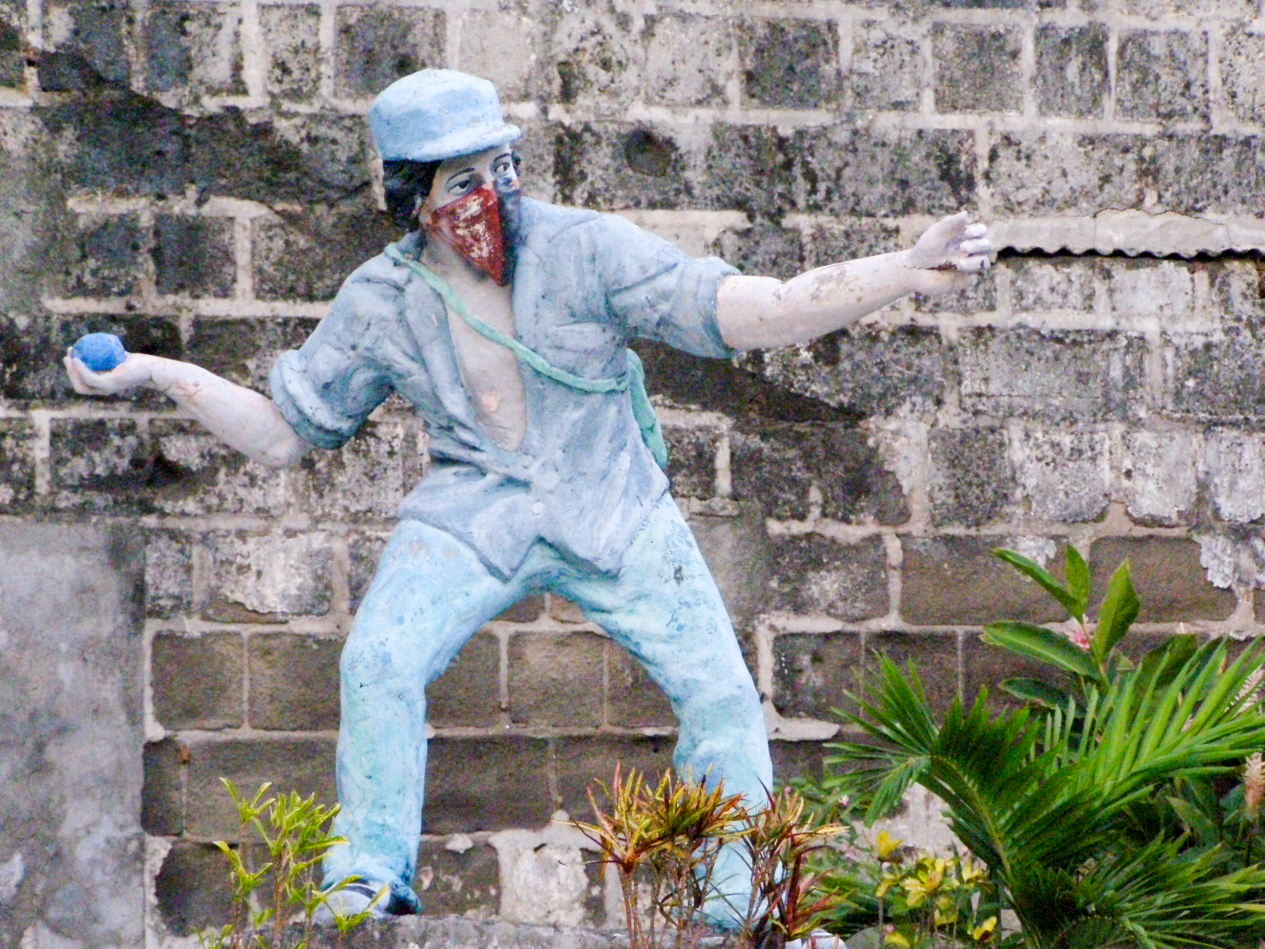 Sandinista student throwing a grenade - Plaster statue - Museum of Legends and Traditions - León - Nicaragua